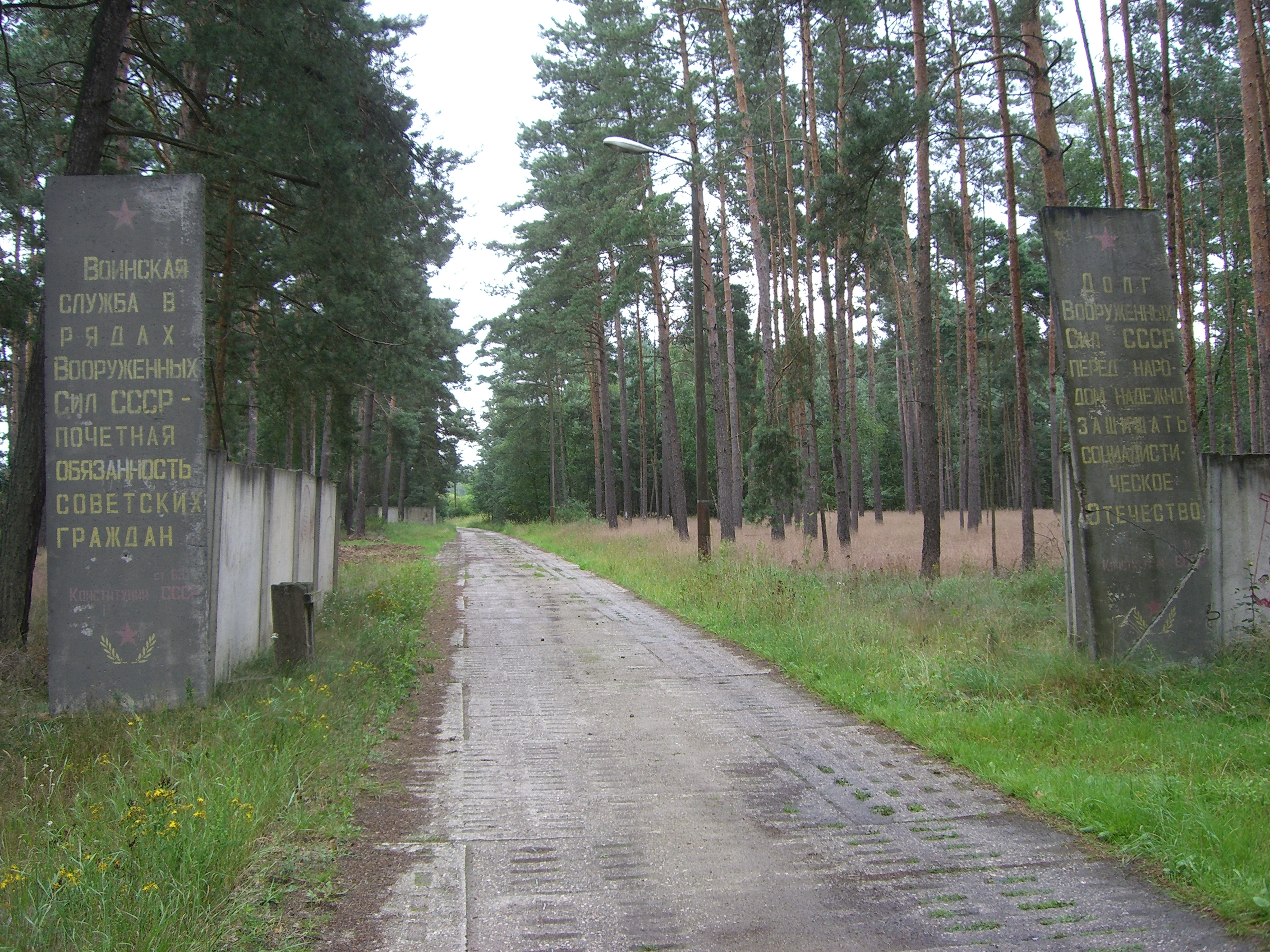 Group of the Soviet Forces in Germany (GSFG) 1945-1994; sites and location to store or maintain nuclear ammunition, here: Special Weapons Depots (SWD) Special Weapons Depot Stolzenhain Entrance/ arrival.